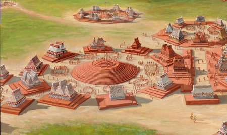 Artists conception of "Los Guachimontones"( Huachimontones), a pre-hispanic archaeological site near Teuchitlán, Jalisco. It is a major site of the Teuchitlan tradition, a complex society that existed from as early as 300 BCE until perhaps 900 CE. In the foreground is Circle 2 and the ballcourt. Partial detail of a 36"x 48" oil on canvas painting.